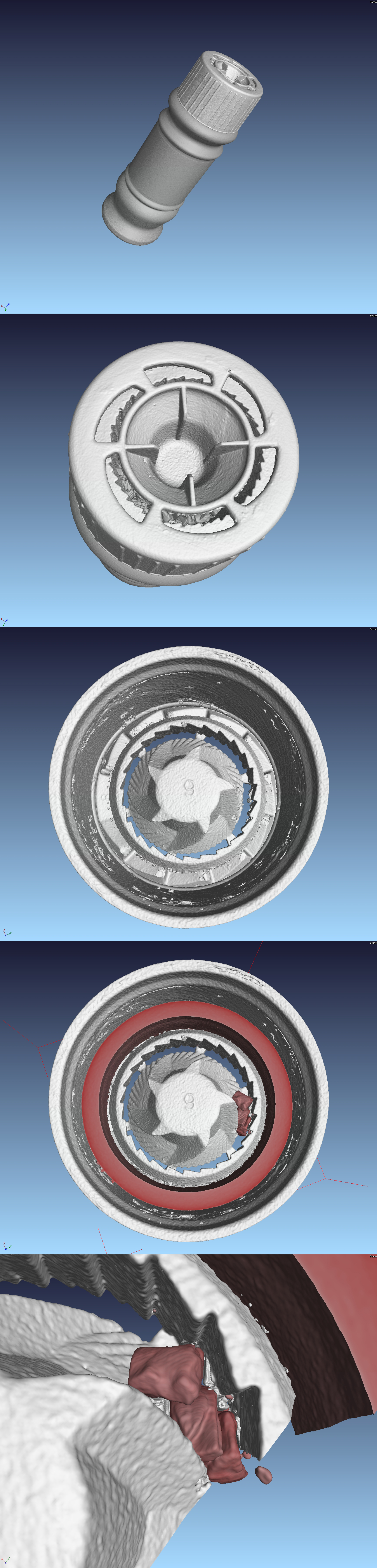 3D reconstruction from CT data: disposable salt mill. From top to bottom: outer side; closeup to the grinder; grinder from inside; grinder from inside with a bit of the glass and some salt; closeup to salt crystals stuck in the grinder.